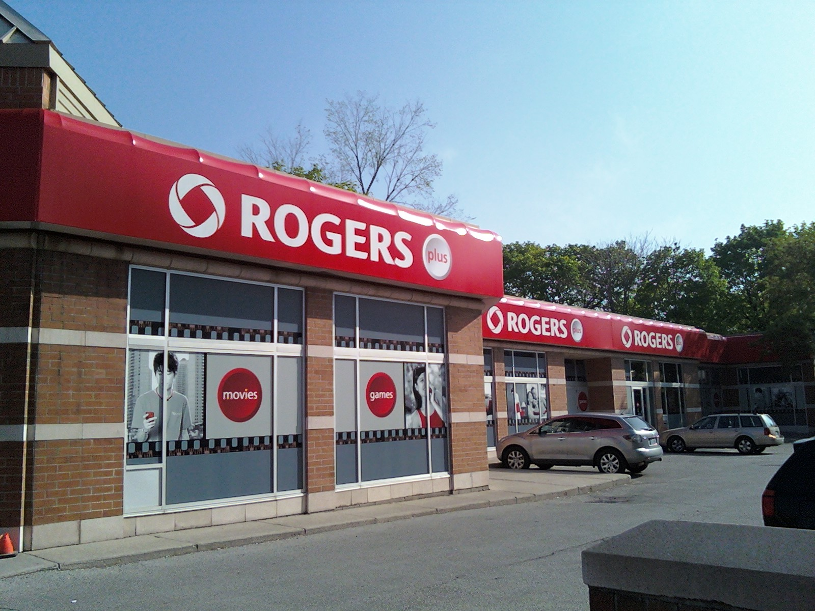 A Picture of the exterior of Rogers Plus in Davisville Toronto Ontario.